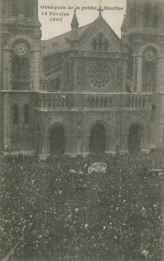 Funeral in 1907 of Marthe Erbelding, a girl of 11,raped, killed and cut into pieces by her murderer. The funeral at Eglise Saint Ambroise in Paris, was followed by a crowd of more thant 50000 people.